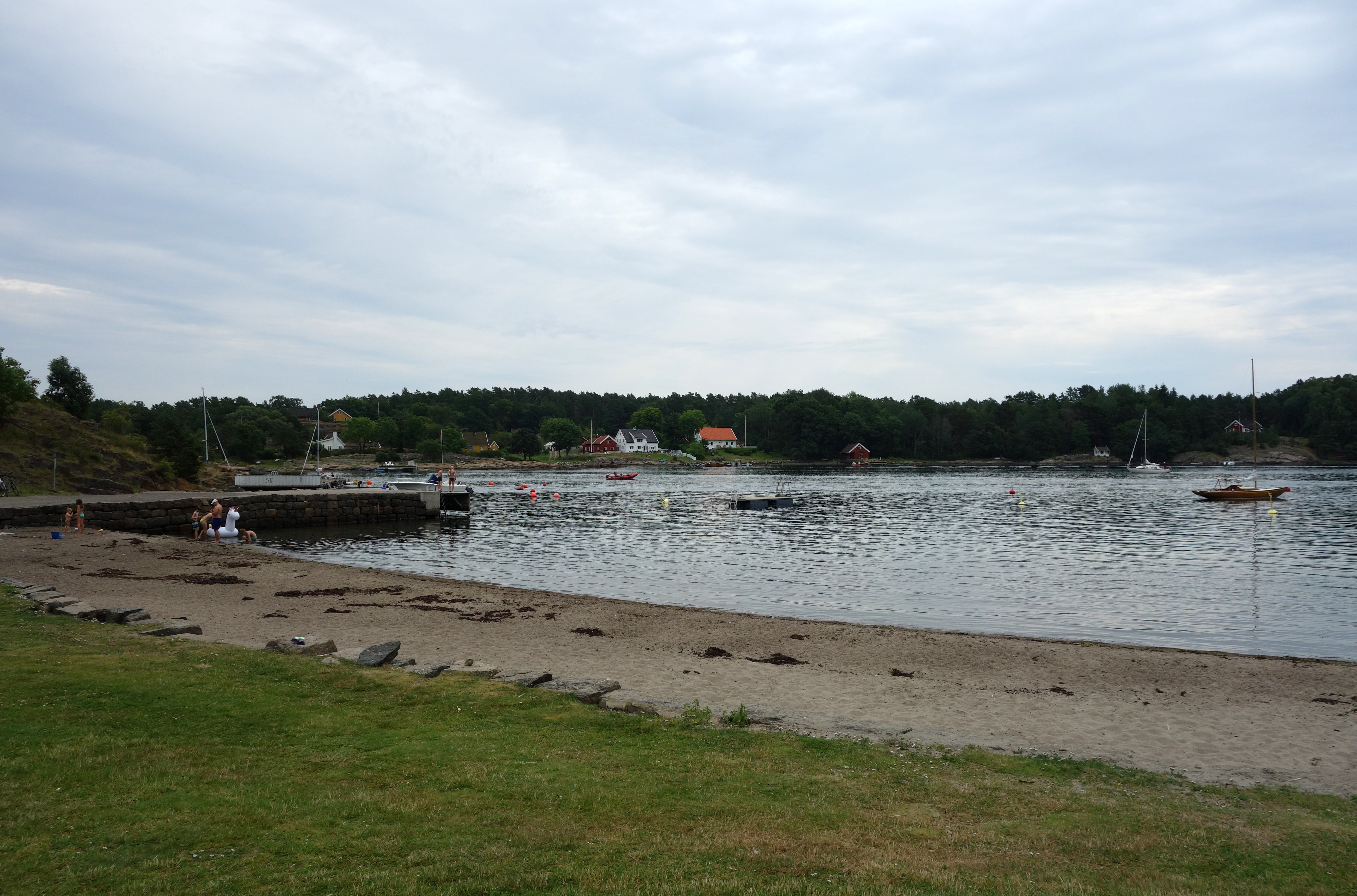 Torødstranda on Nøtterøy, Norway